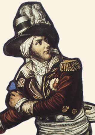 Stained glass window of the Church of Notre-Dame in Beaupréau presenting a portrait of general François Athanase de Charette de la Contrie